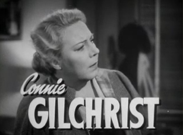 Cropped screenshot of Connie Gilchrist from the trailer for the film Grand Central Murder.